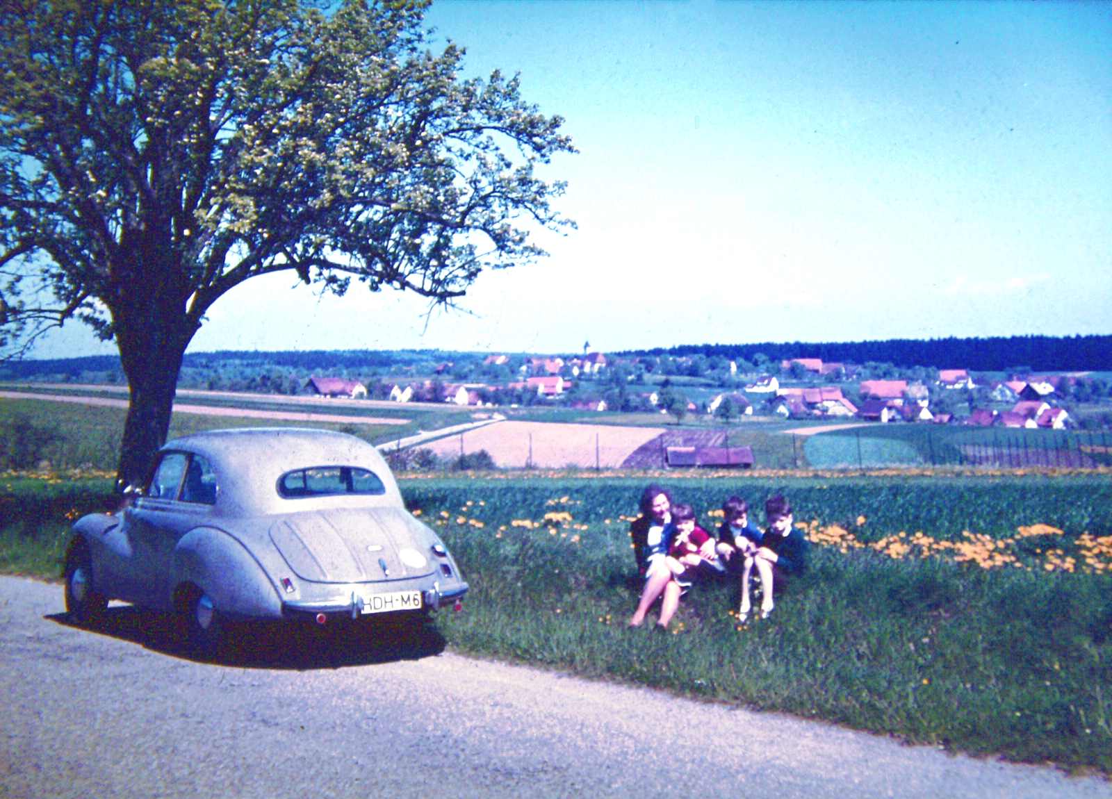 Koenigsbronn-Zang from south 1962-05-31